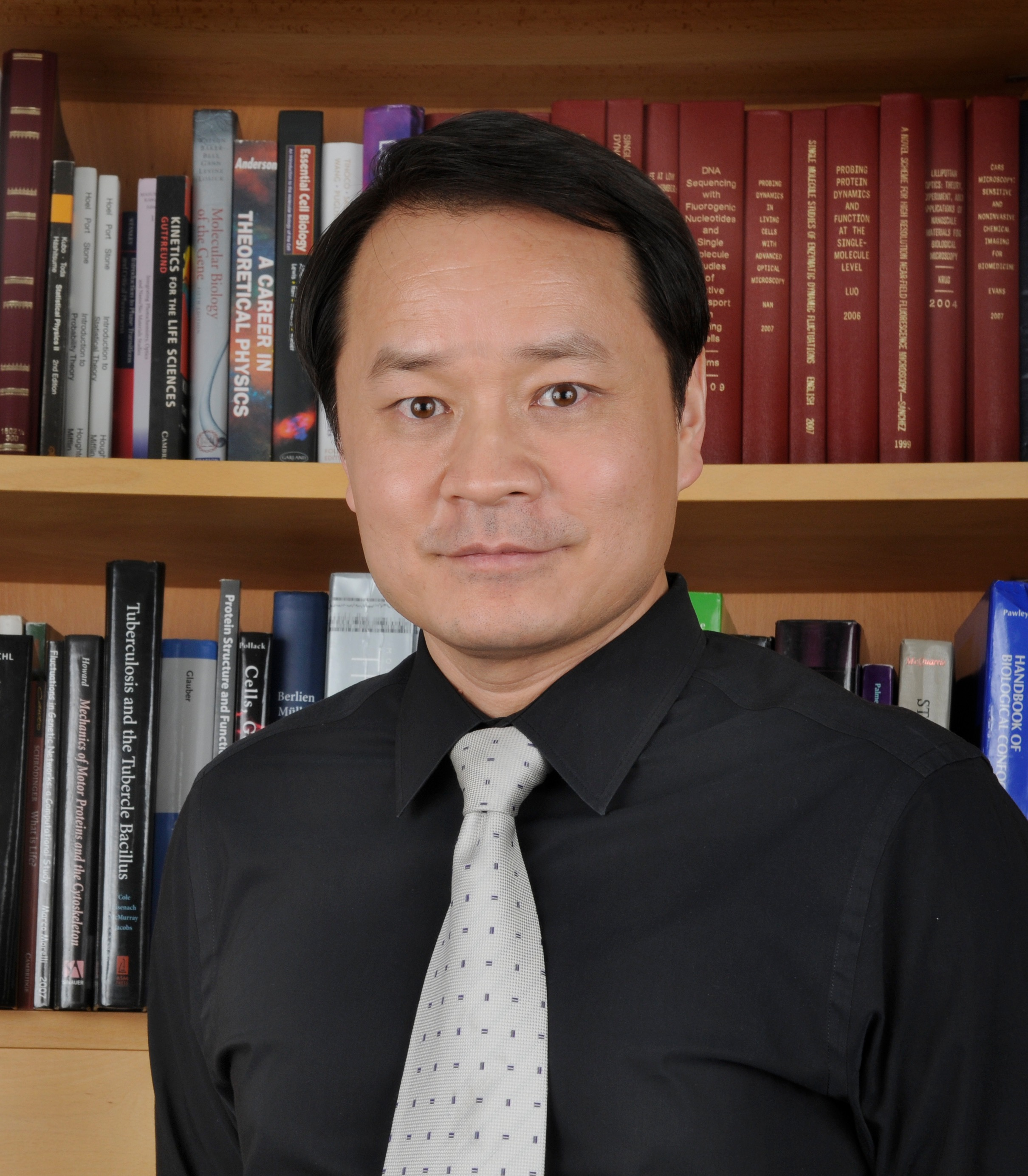 Xiaoliang Sunney Xie Photo